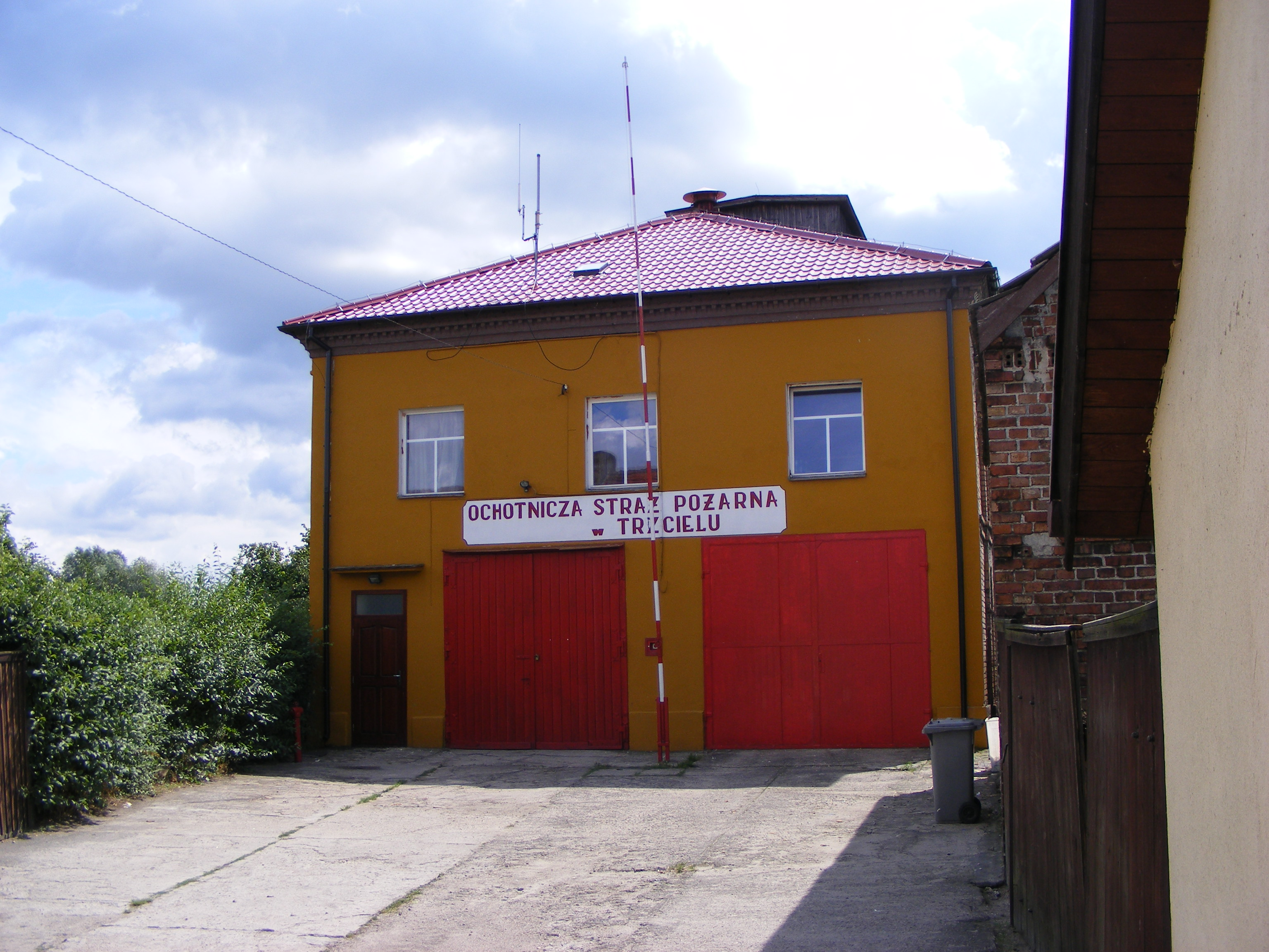 Synagogue in Trzciel